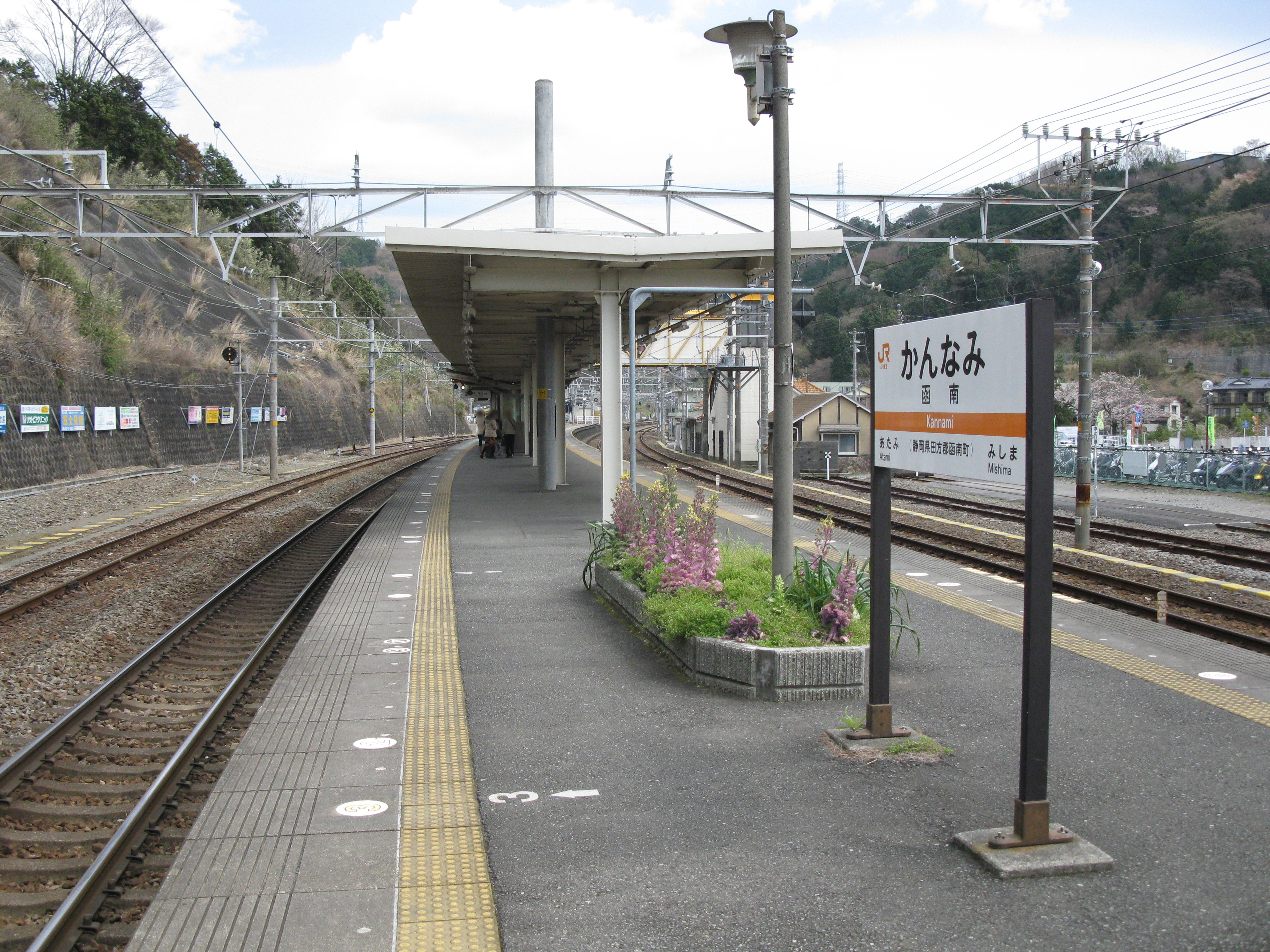 Kannami Station platform (Central Japan Railway(JR Central) Tōkaidō Main Line)